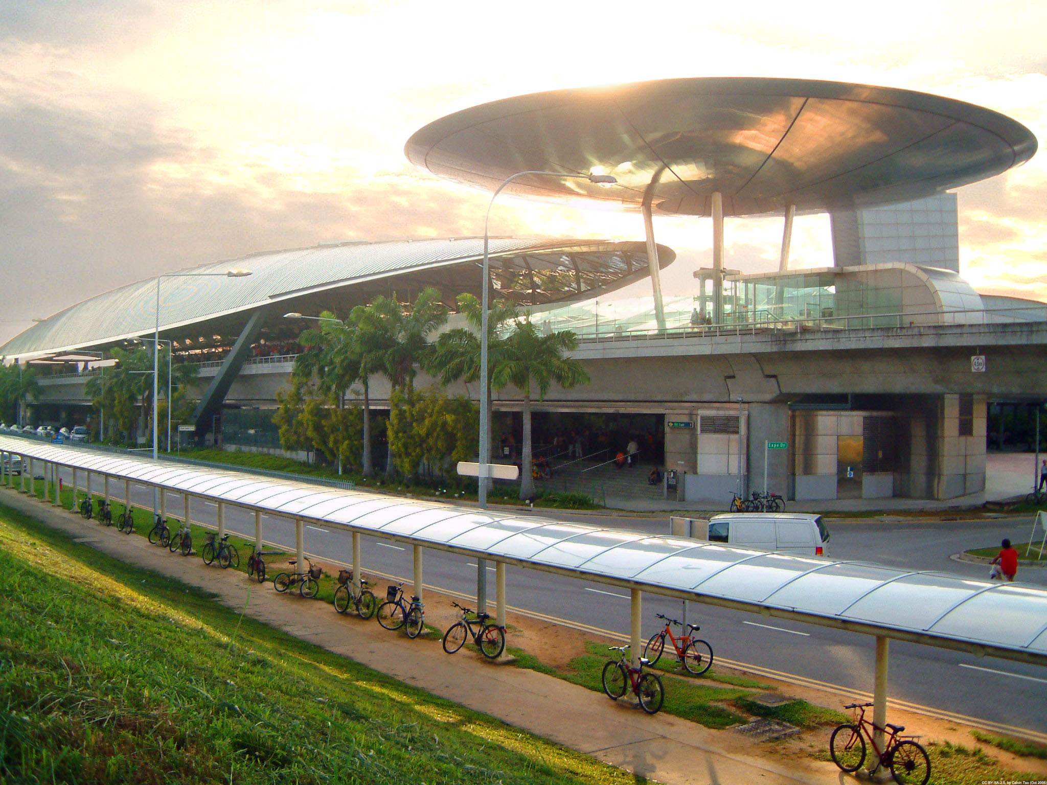 Exterior View of Expo MRT Station, showing the futuristic station design. Image captured by Calvin Teo Nov 2005